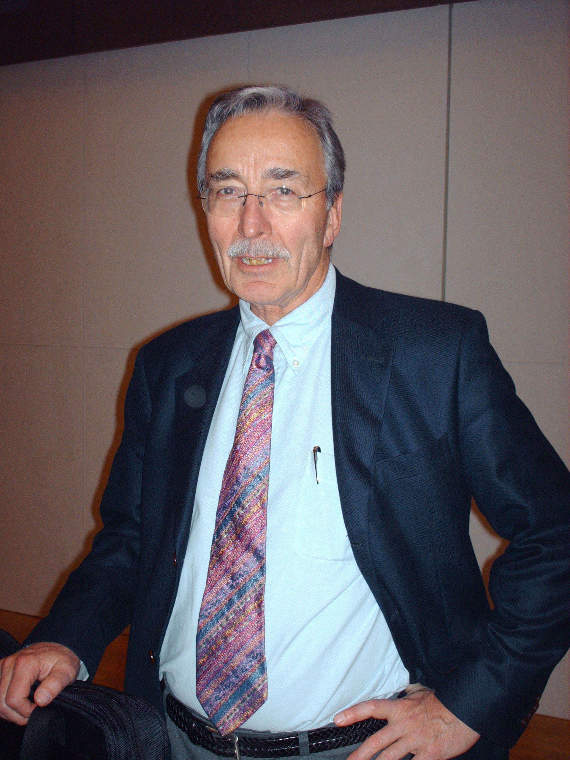 Peter Weingart check usage